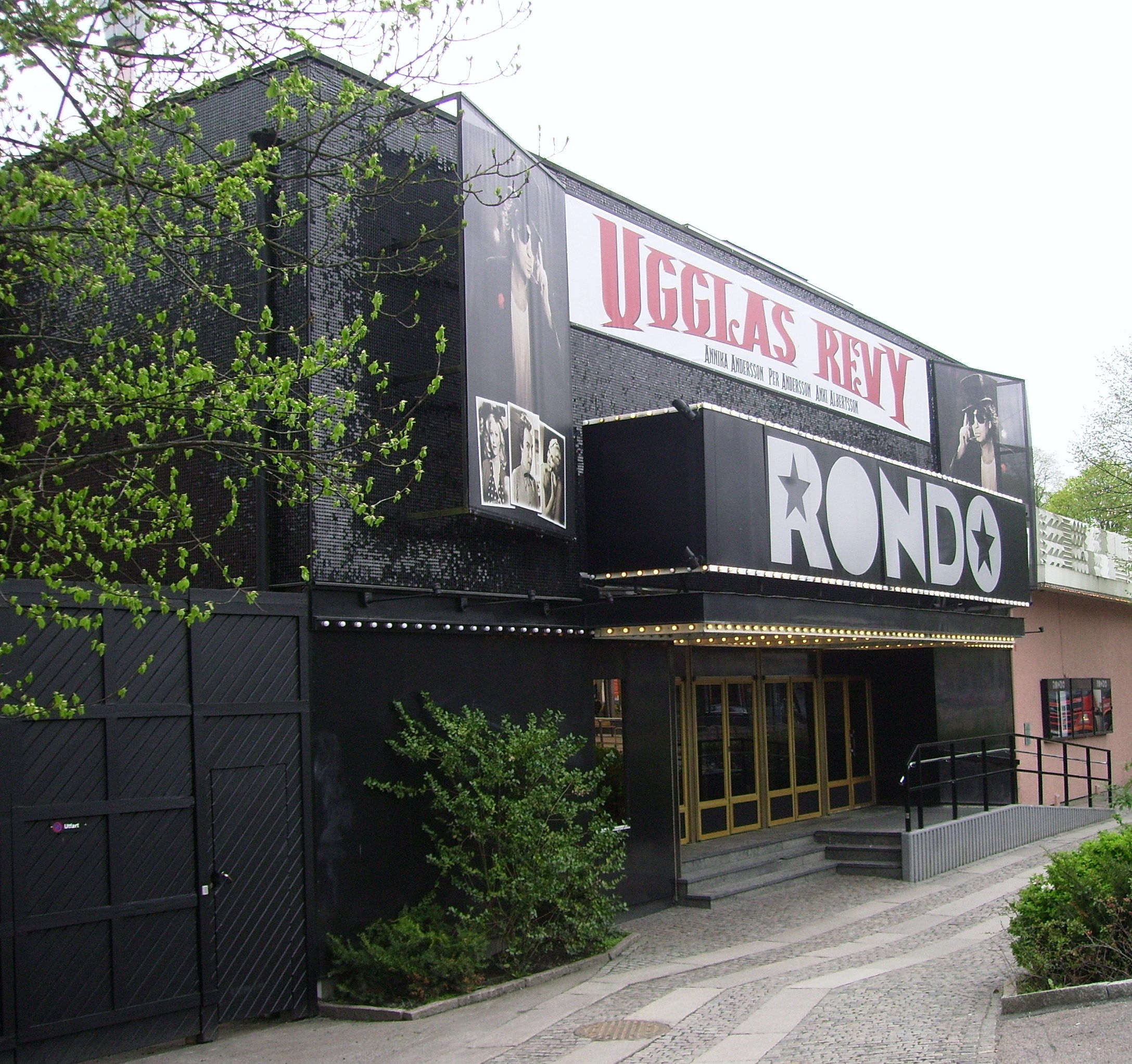 Picture of Rondo, theatre in Göteborg